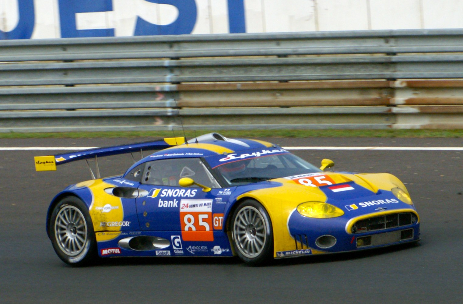 Spyker Squadron - Spyker C8 Laviolette GT2R Driven by Tom Coronel, Peter Dumbreck and Jeroen Bleekemolem at Le Mans 2010